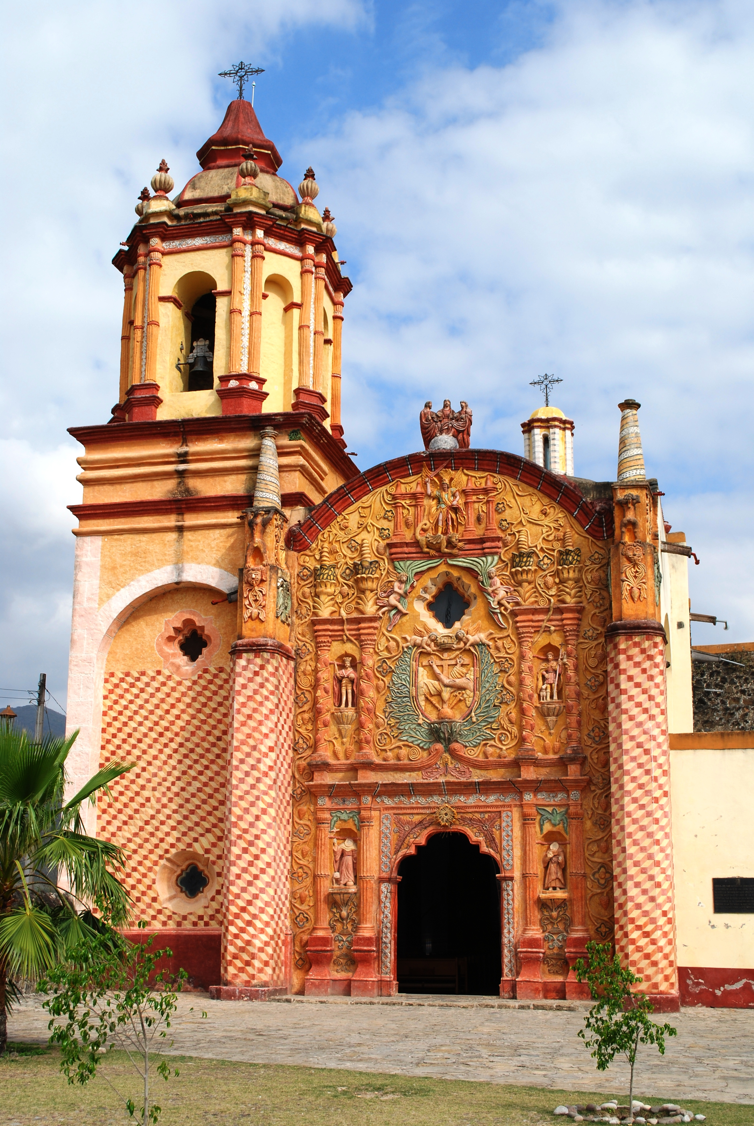 Facade of the mission church at Concá, Arroyo Seco, Querétaro